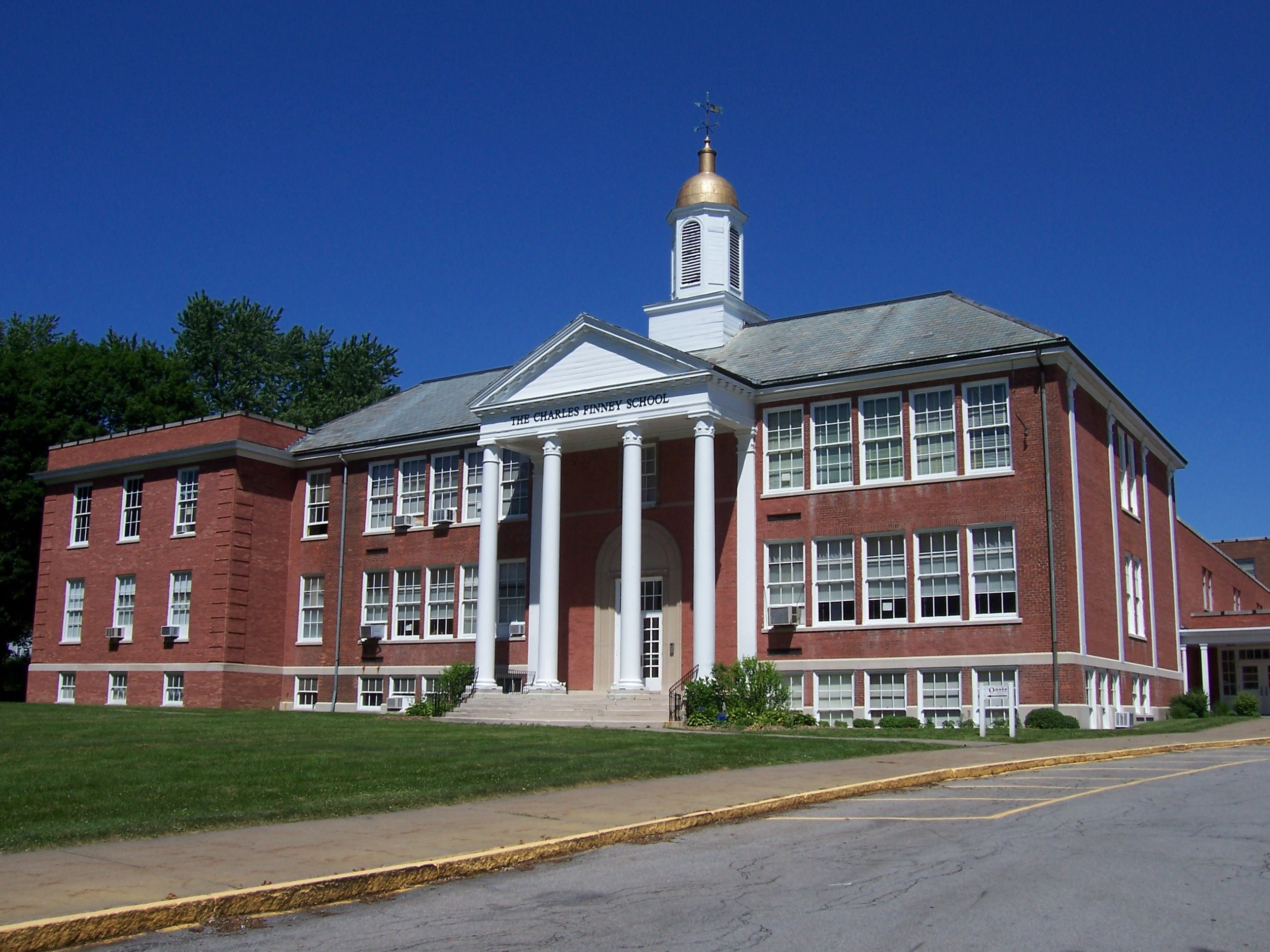 The Charles Finney School in Penfield, New York. It served as the Penfield High School until 1958.